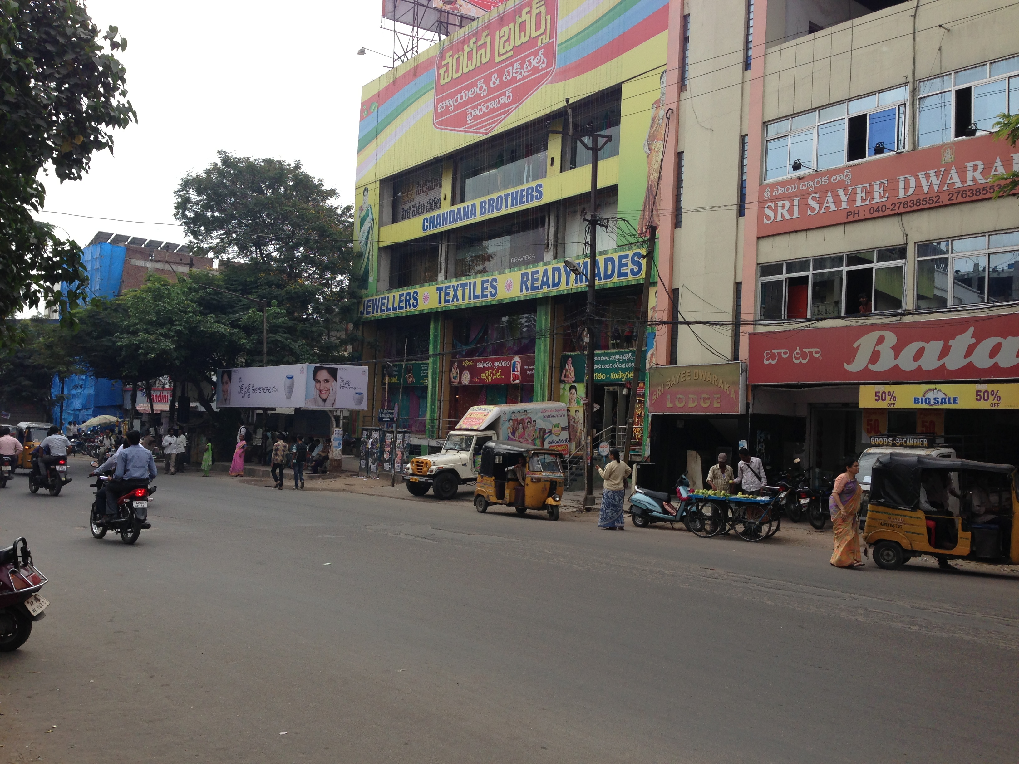 Chikkadpally Main Road, Chikadpally, Hyderabad, India